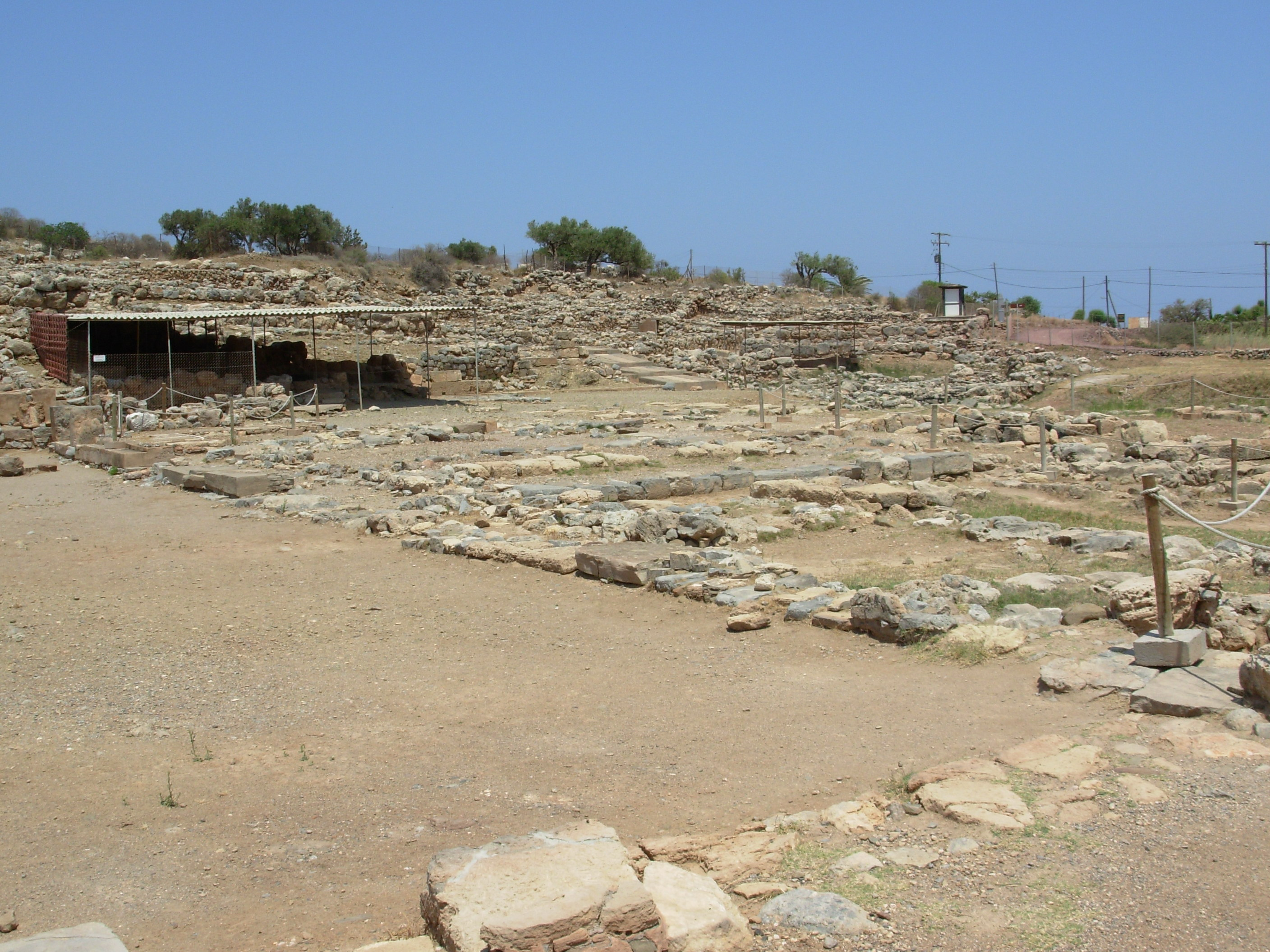 The Kato Zakros palace, Eastern Greece